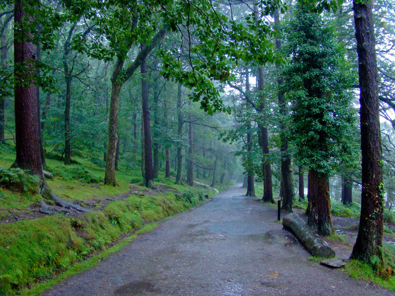 Walking back from the Miner's Village along the Miner's Path beside the Upper Lake in Glendalough, Wicklow, Ireland